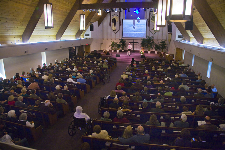 Inside an adventist church